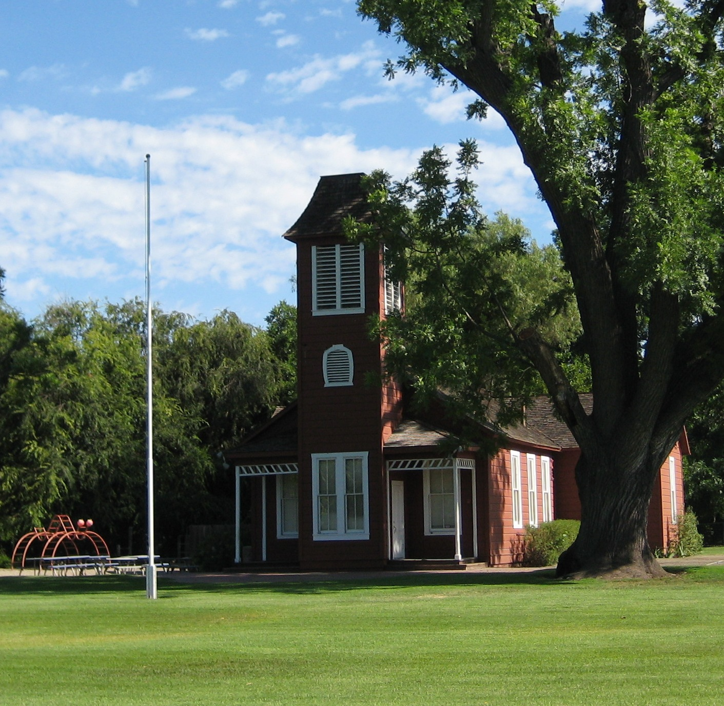 Ballard School in Ballard, California taken on 8 July 2011.